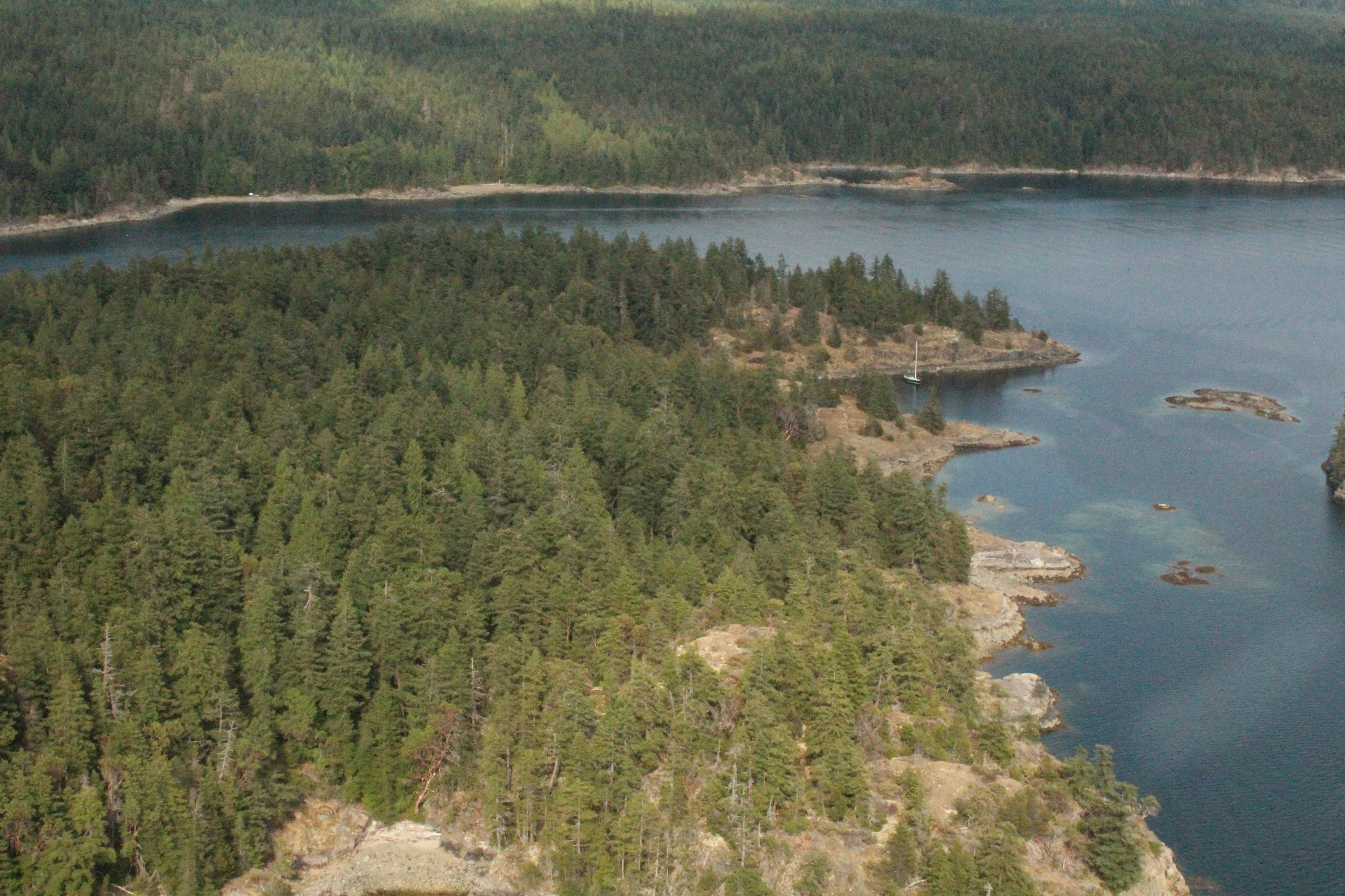 Copeland Islands Marine Prov. Park from a seaplane